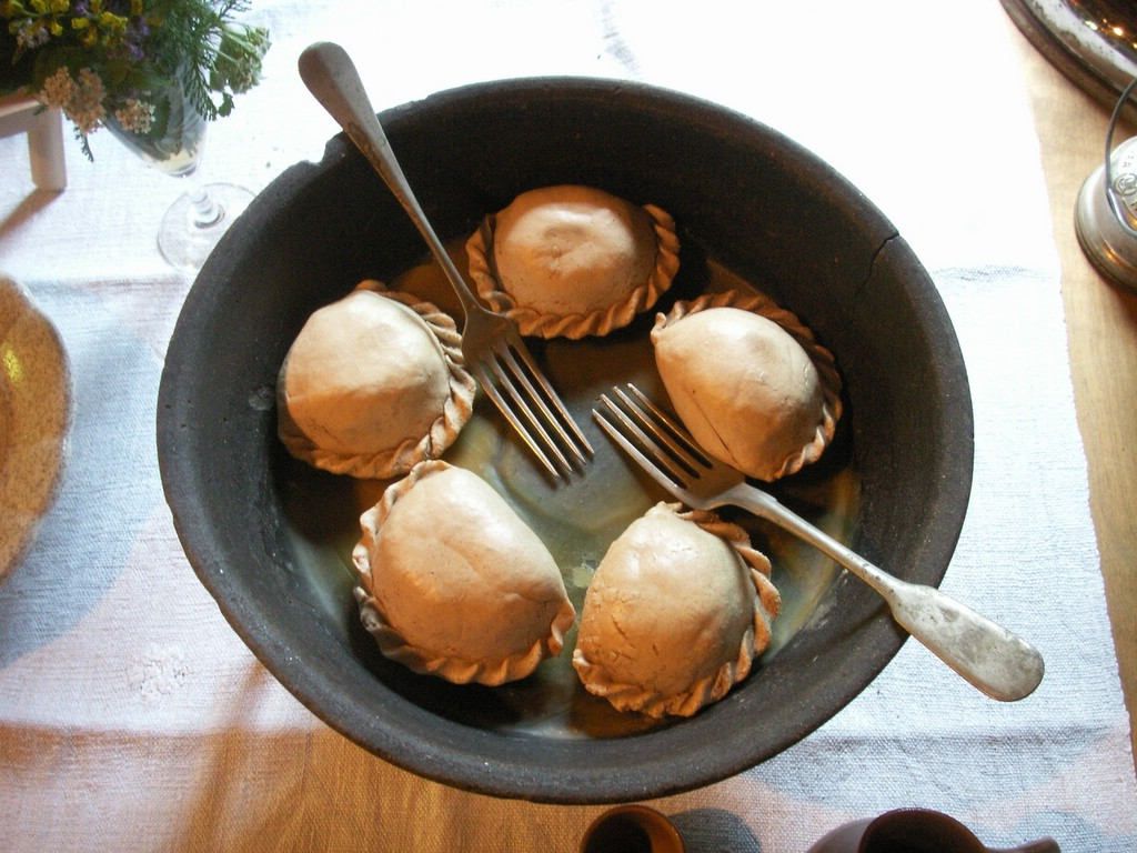 Noodle speciality from Carinthia / Austria / European Union.